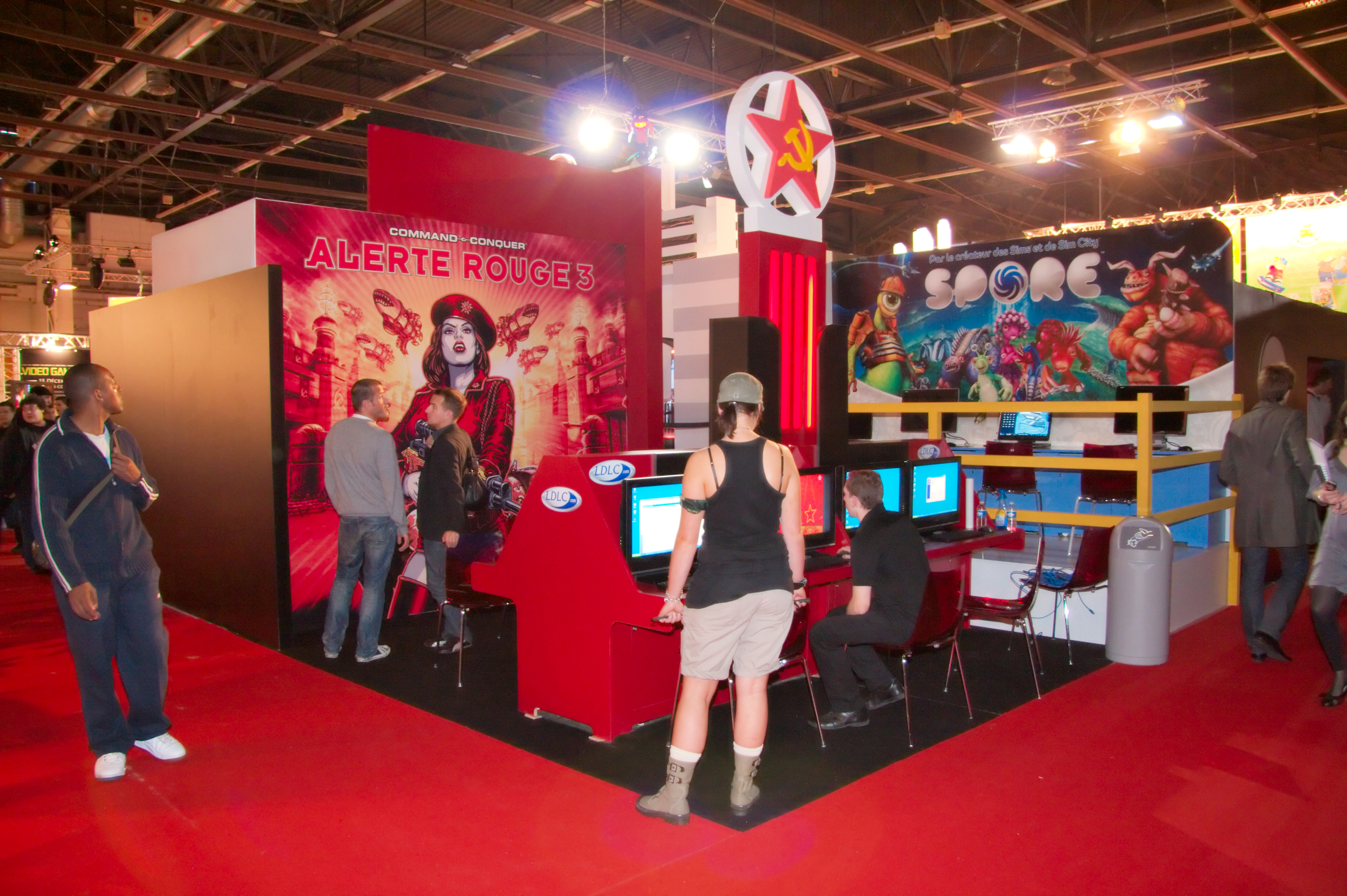 Command & Conquer: Red Alert 3. Festival du jeu vidéo 2008 (video game festival) (Paris, France).